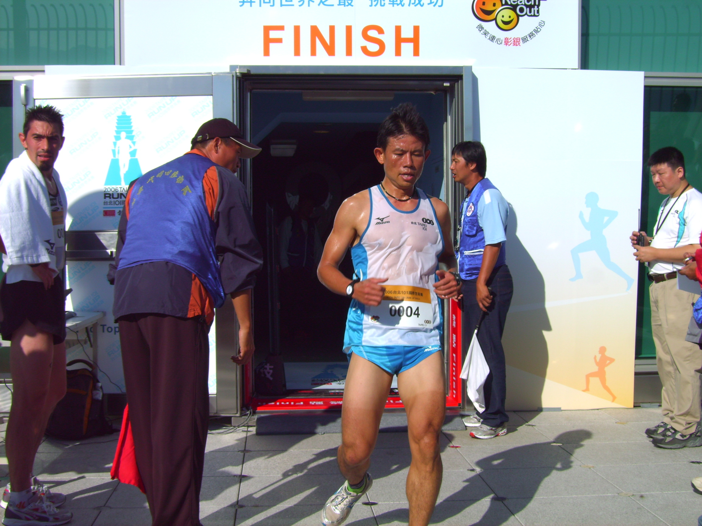 Chung-Ren Chen finished his challenge at 2006 Taipei 101 Run Up.